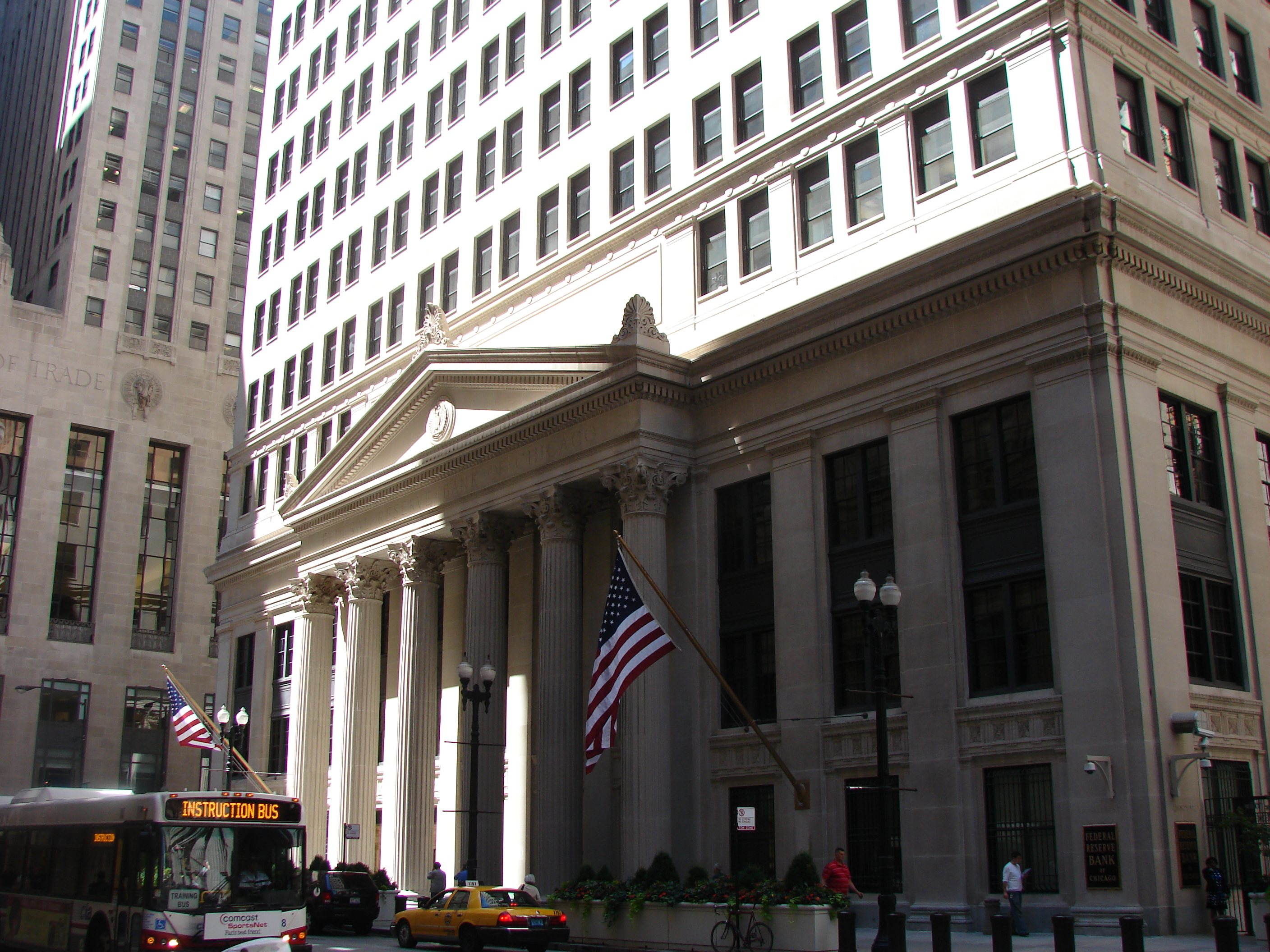 US Federal Reserve Building in Chicago, IL on Lasalle Street